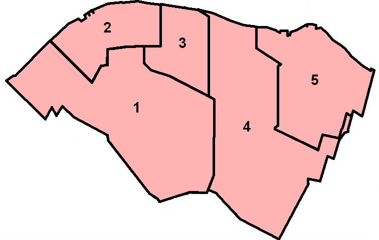 Windsor wards (Windsor municipal election, 2006)